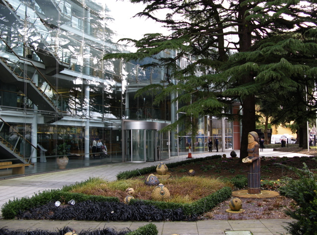 Fingal County Hall, Swords, Co.Dublin Completed in 2000 the County Hall was designed by Bucholz & McEvoy Architects and was built on a former town park.